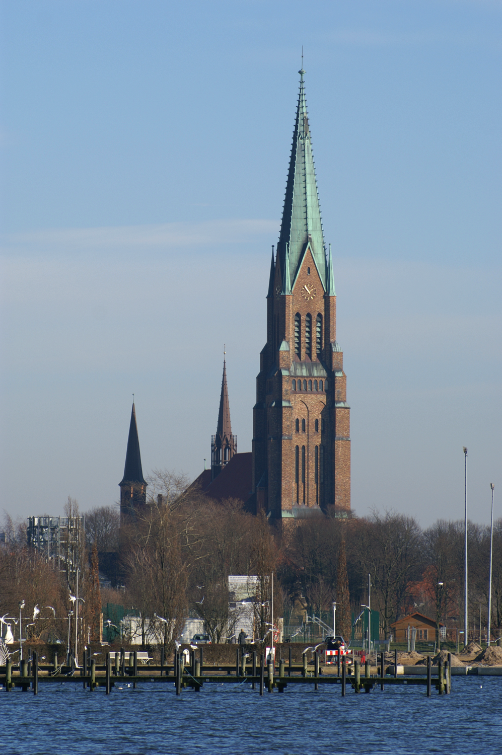 St Peter's Cathedral in Schleswig.